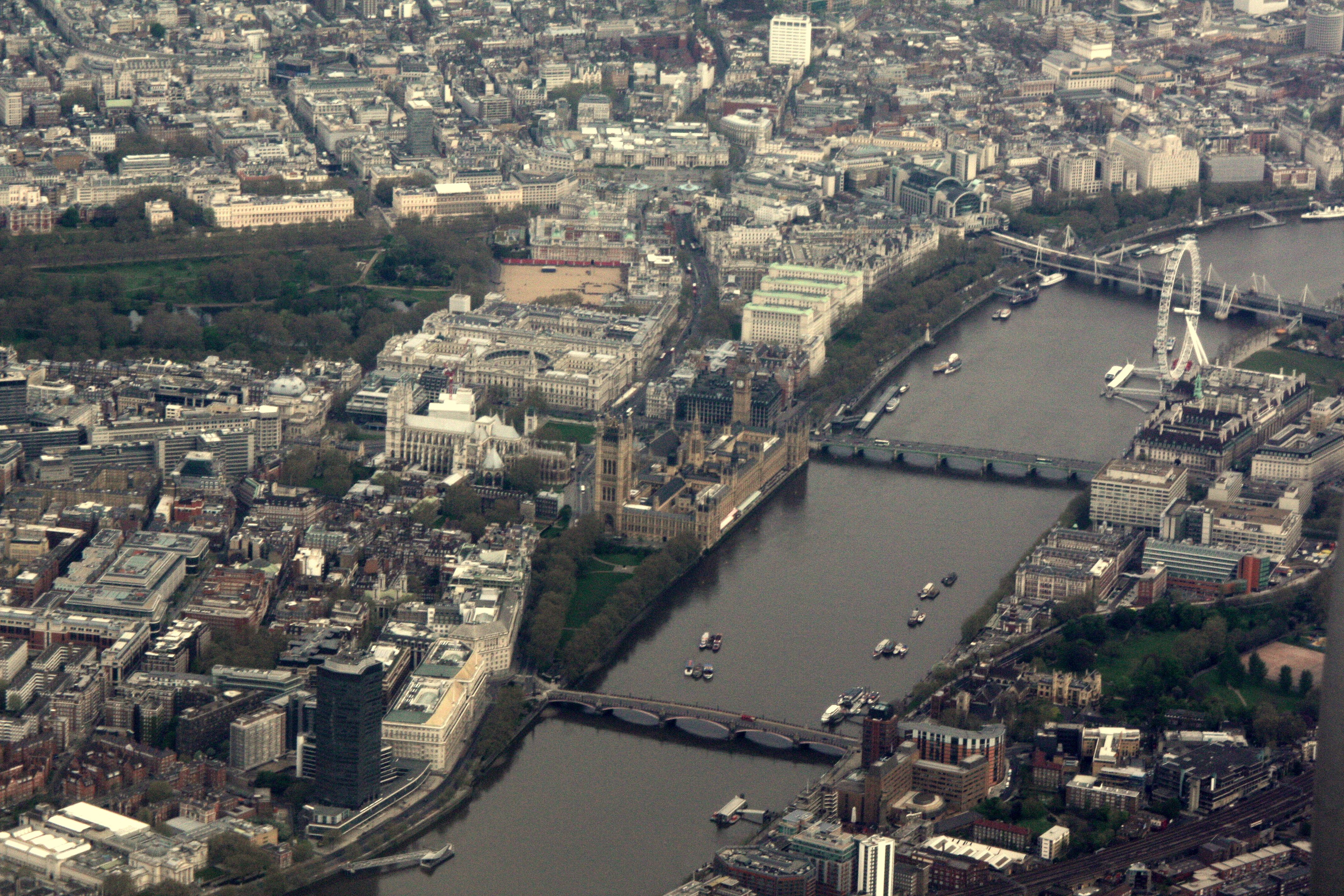 River Thames at Westminster, taken from the American Airlines flight from Chicago